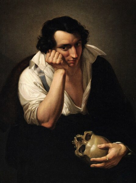 Ritratto di Tommaso Minardi con teschio